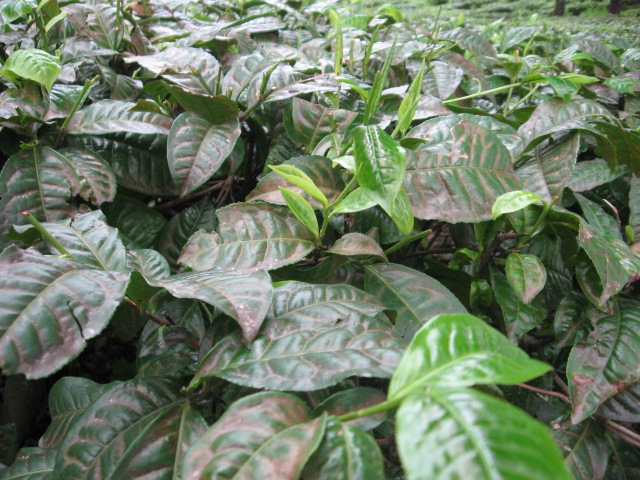 Fresh bud in a tea plant